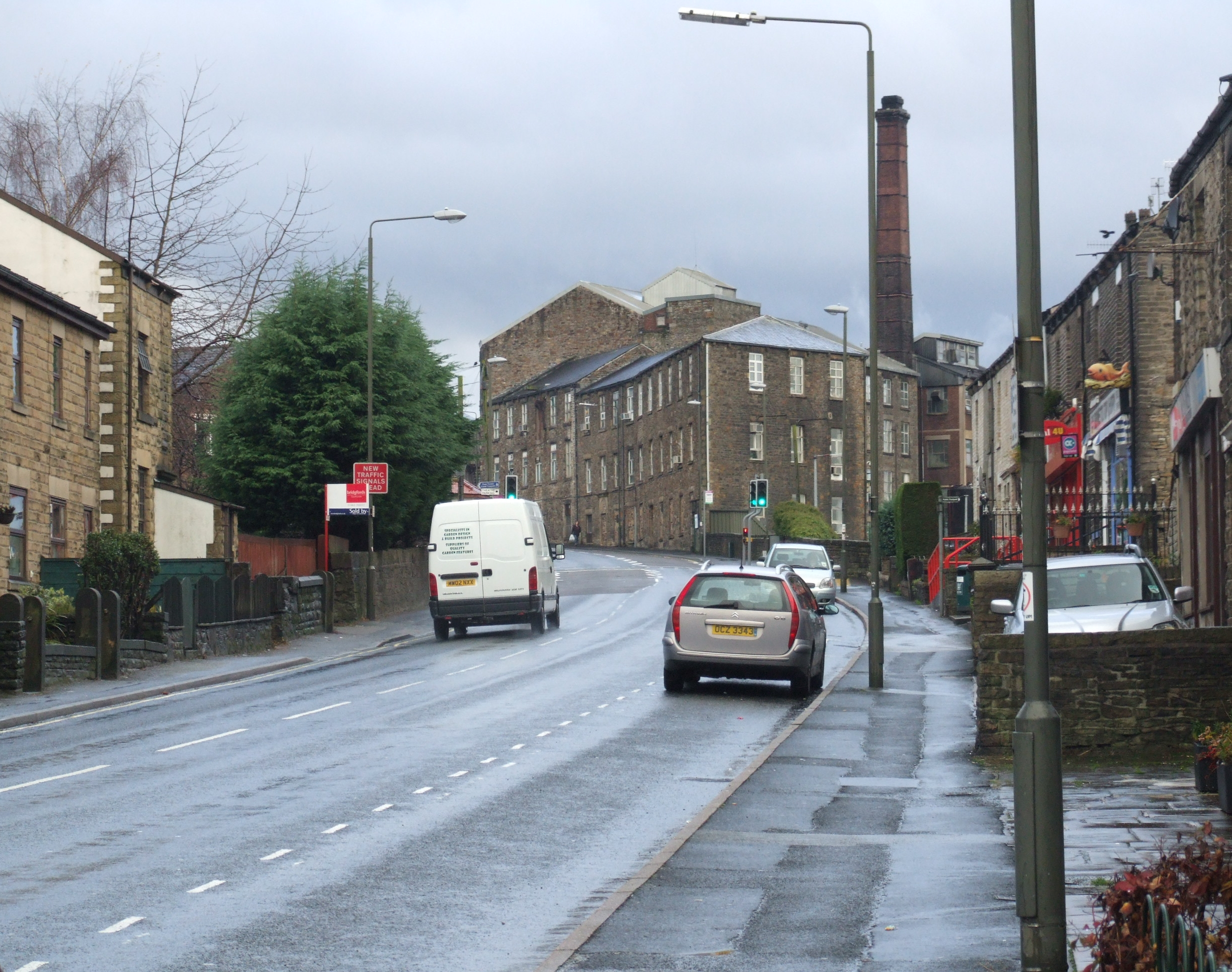 Newtown, Derbyshire is the part of New Mills in the Peak District, on the south bank of the Peak Forest Canal. Most is now in Derbyshire, some remains in Cheshire.